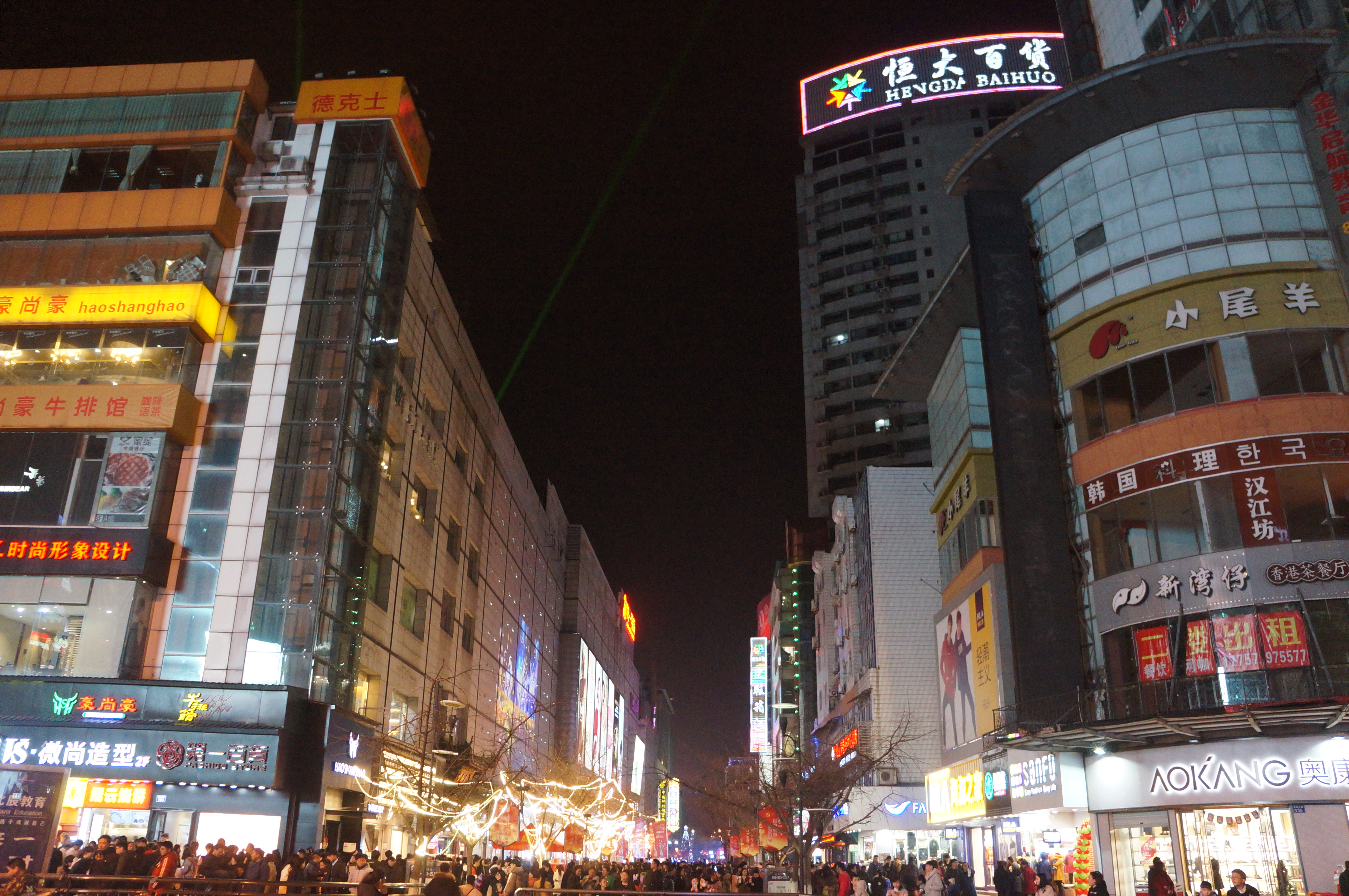 201612 Xishi Street, Jinhua, I always heard as Tomato Street when I was young.